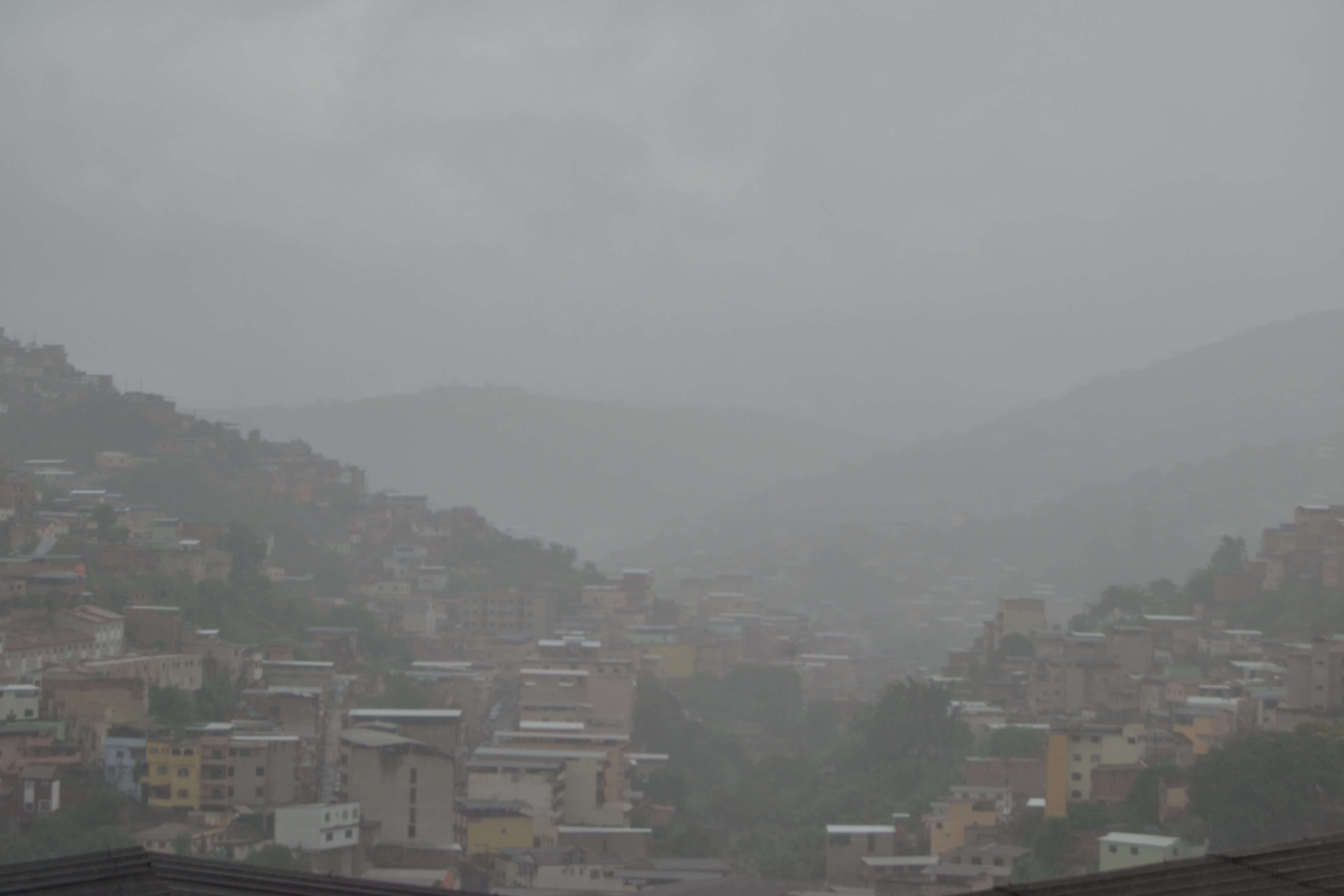 The Santa Cruz neighborhood in Caratinga, Minas Gerais, Brazil, during a heavy rain.